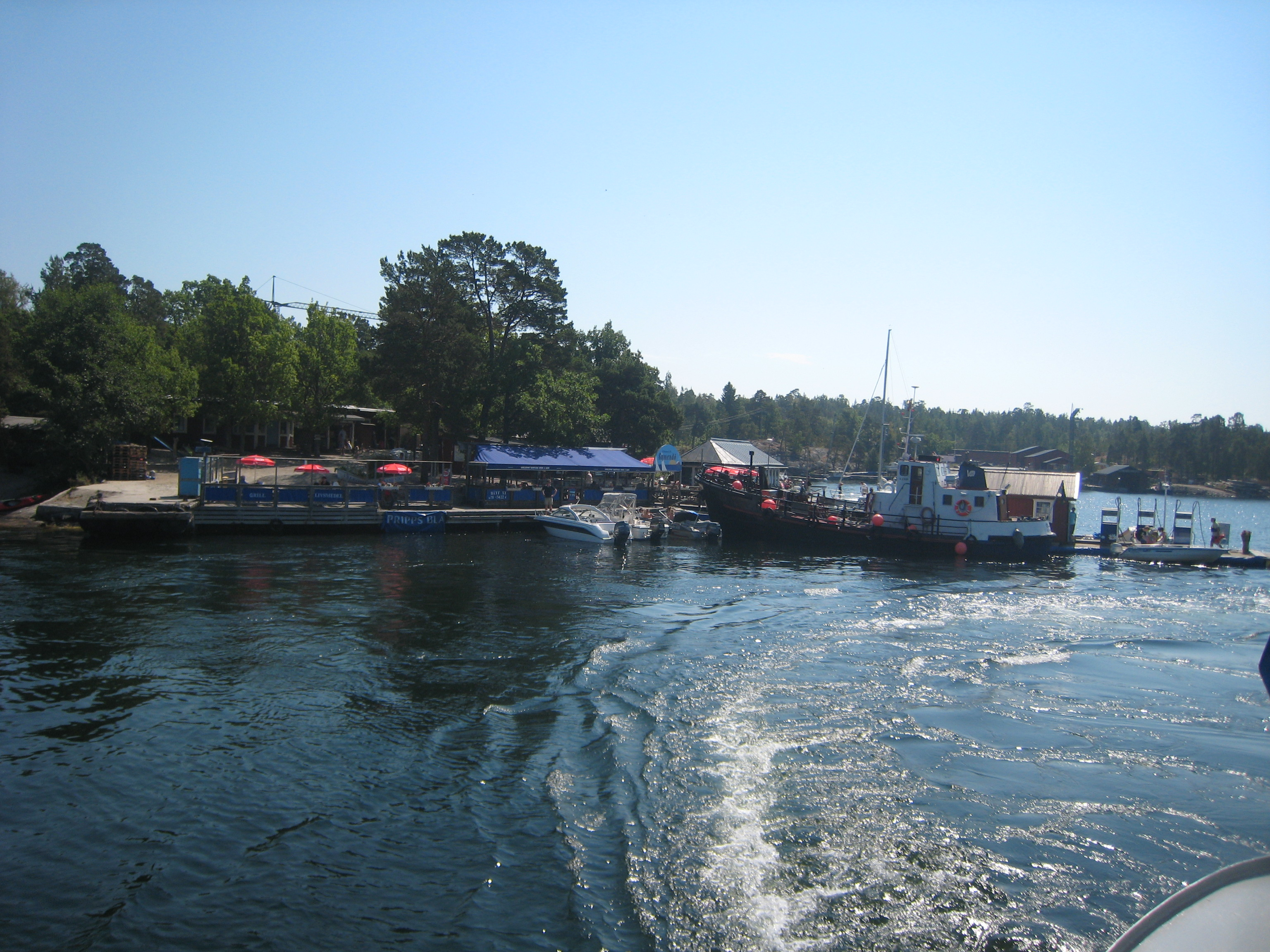 Kymmendö brygga.